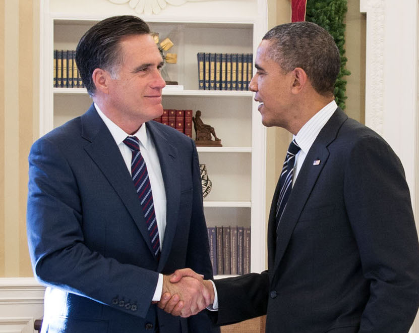 President Barack Obama and former Massachusetts Gov. Mitt Romney talk in the Oval Office following their lunch, Nov. 29, 2012. (Official White House Photo by Pete Souza)